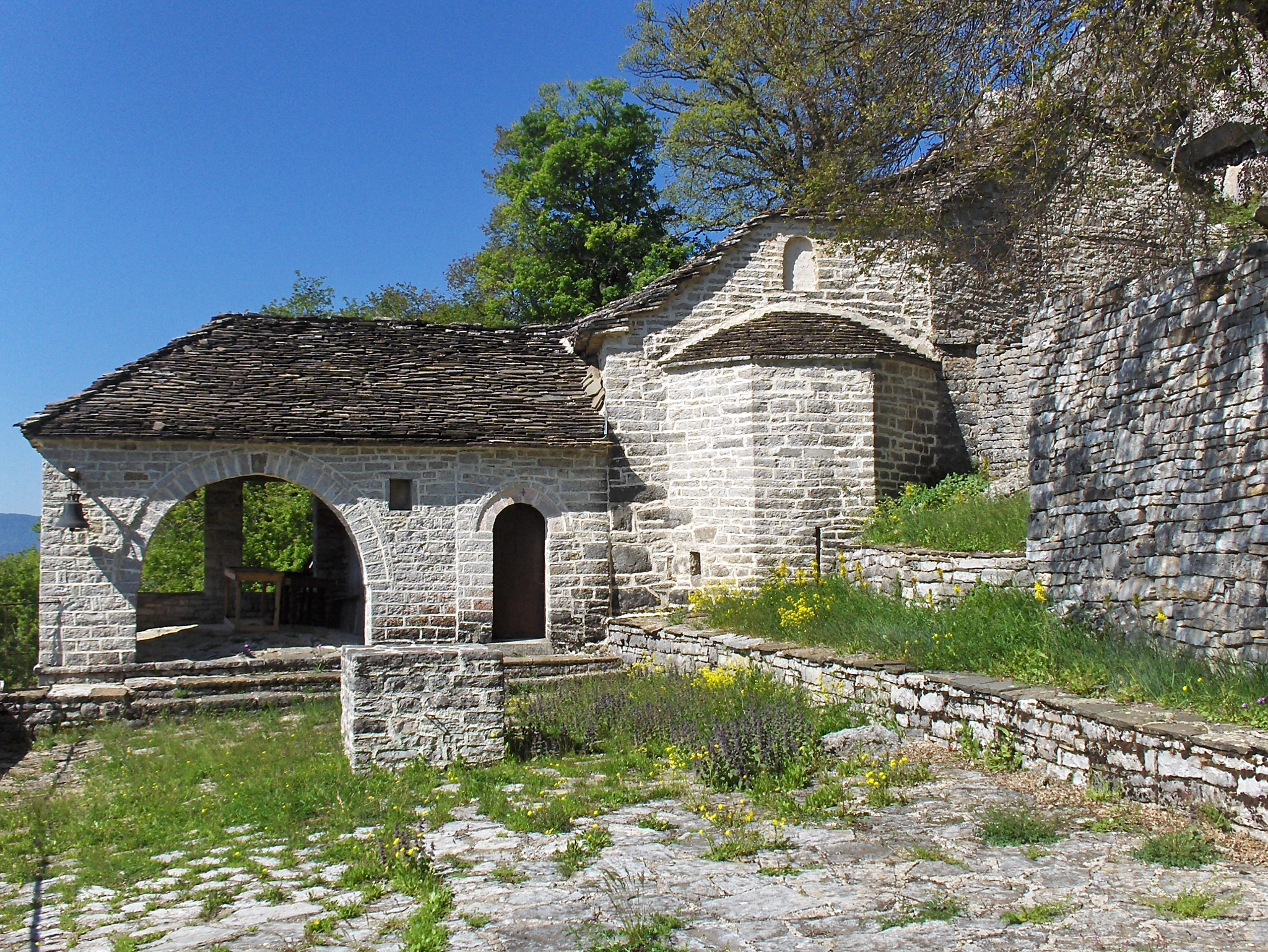 Monastery of Agia Paraskevi, Skamneli, Zagori, Epirus, Greece.